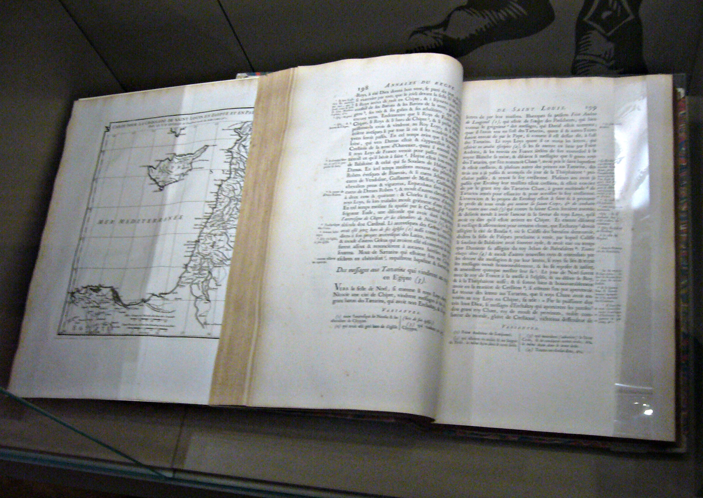 Book from Jehan de Joinville - "Histoar de Saint Louis", which refers to the Saint Louis and to his visit to Cyprus during the 7th crusade (1770 year) - Leventis Municipal Museum, Nicosia, Cyprus